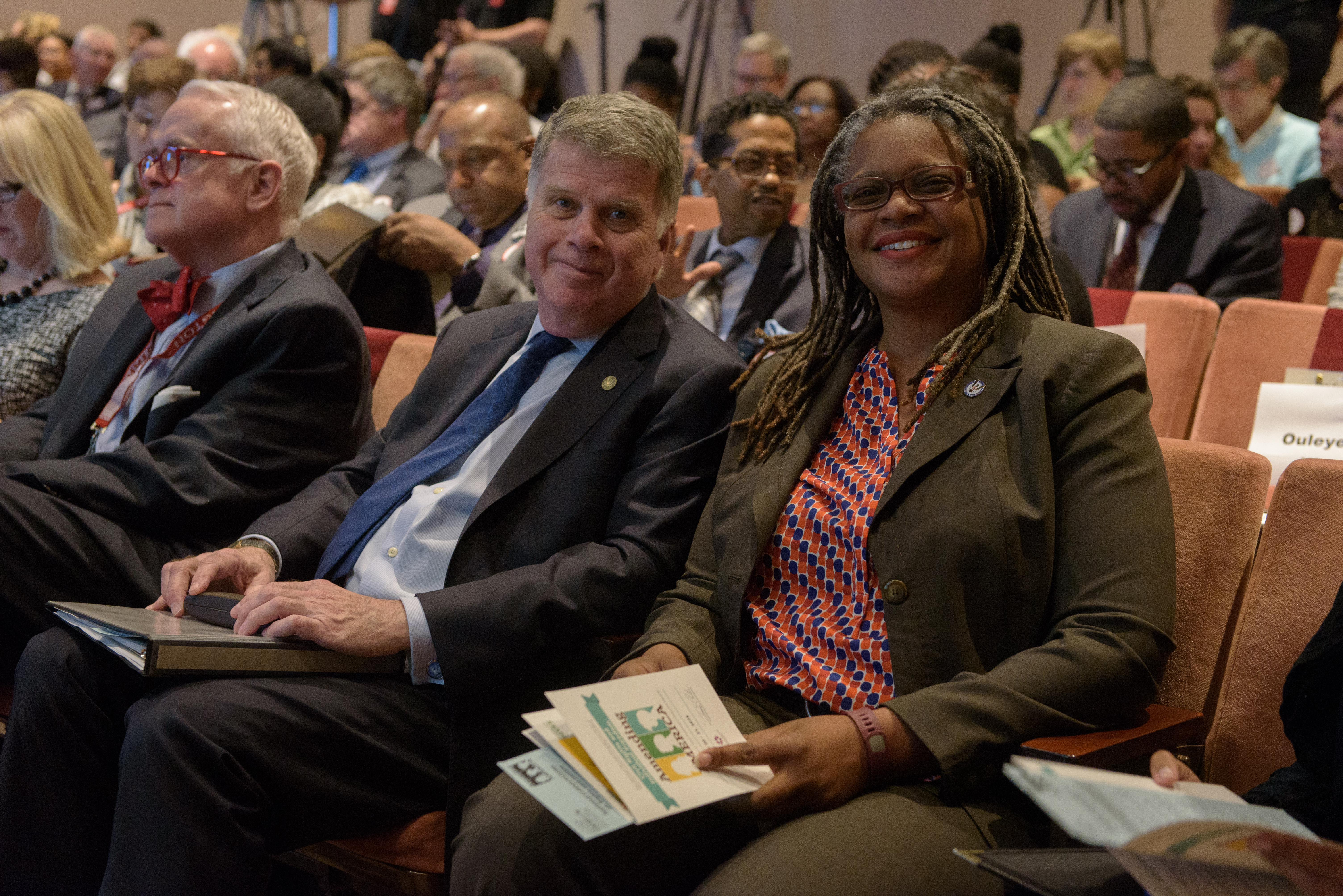 David S. Ferriero, Archivist of the United States, and Meredith Evans, Director of the Jimmy Carter Presidential Library, watch a panel discussion on civil rights and individual freedom on May 20, 2016. Jim Gardner, executive for Legislative Archives, Presidential Libraries, Museum Services at the National Archives, is to the left. This event was the first in a series of National Conversations held across the country as part of the Amending America Initiative. Photo by Michael A. Schwarz for the National Archives Foundation.